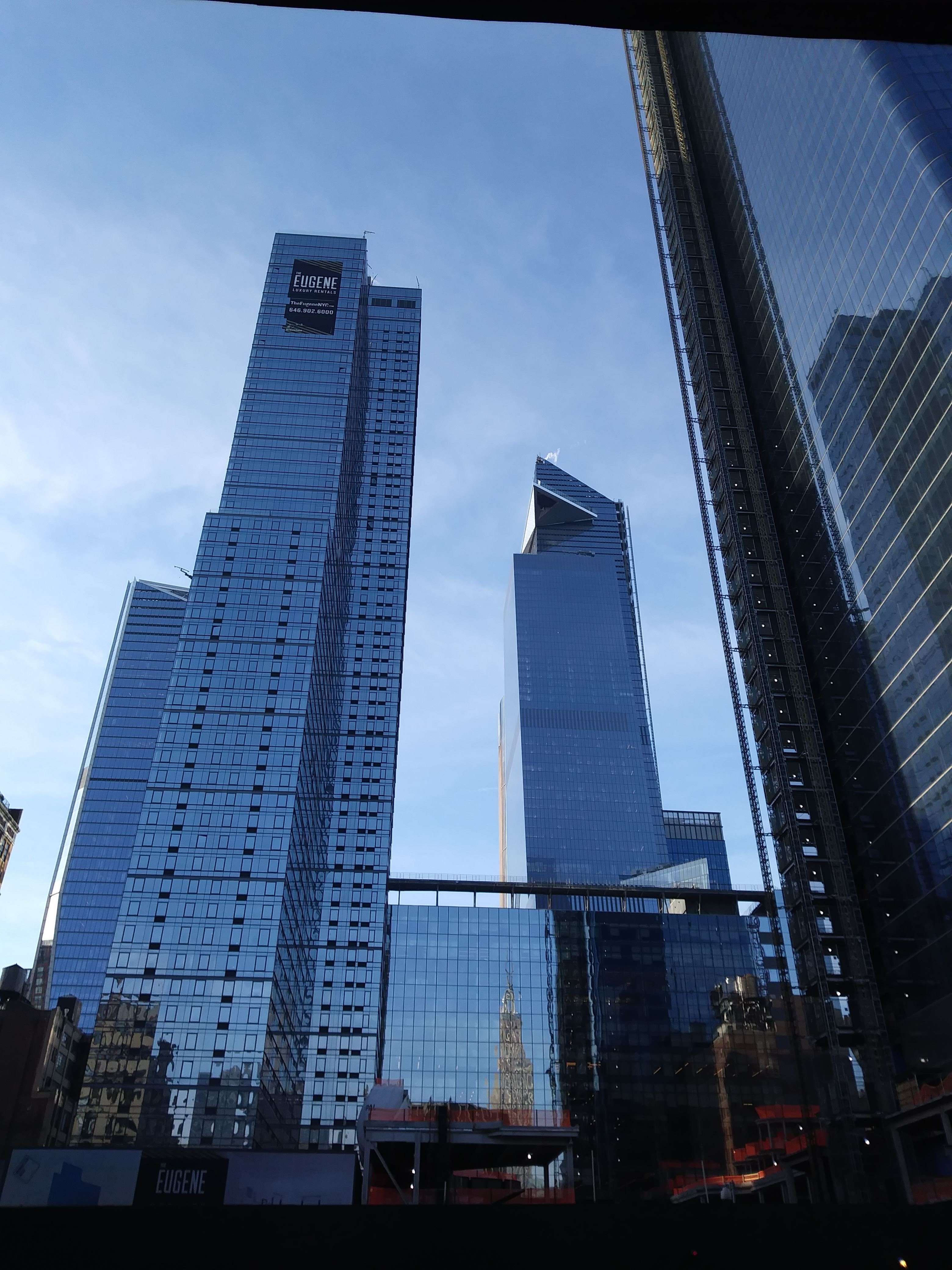 3 Manhattan West as of February 3, 2019. 30 Hudson Yards can be seen on the right hand side.